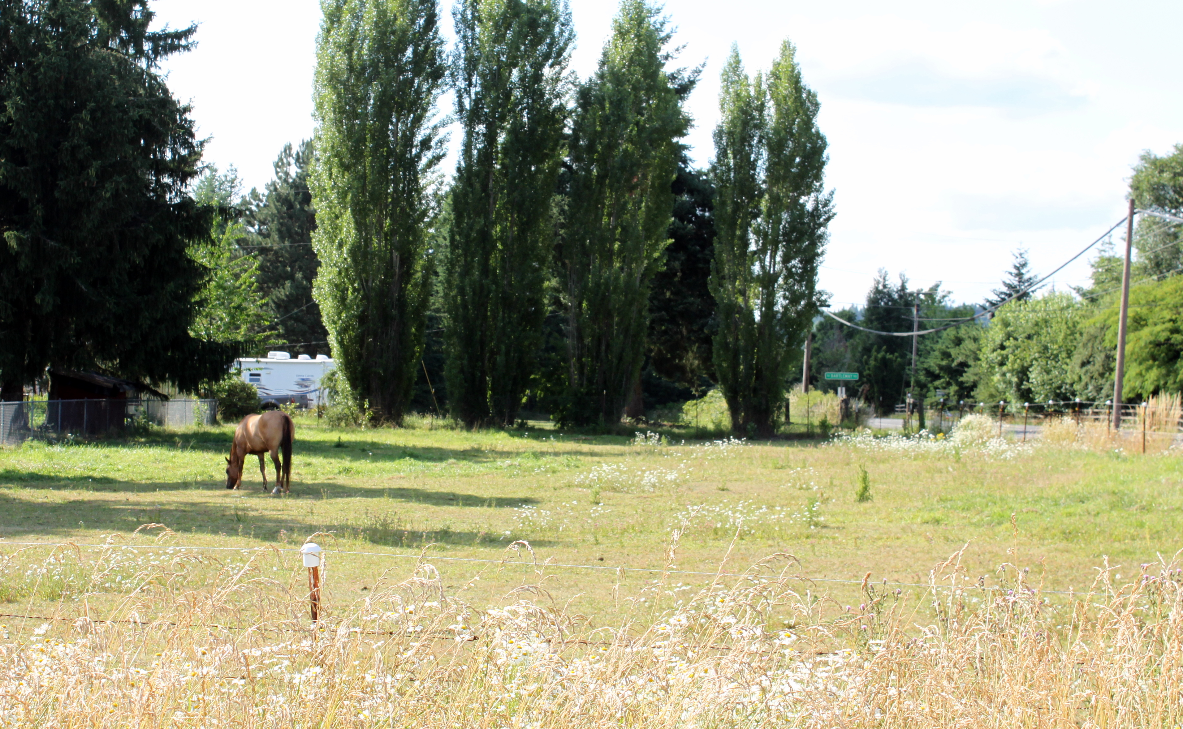 Horse pasture at modern-day (2009) Riverside, Clackamas County, Oregon.